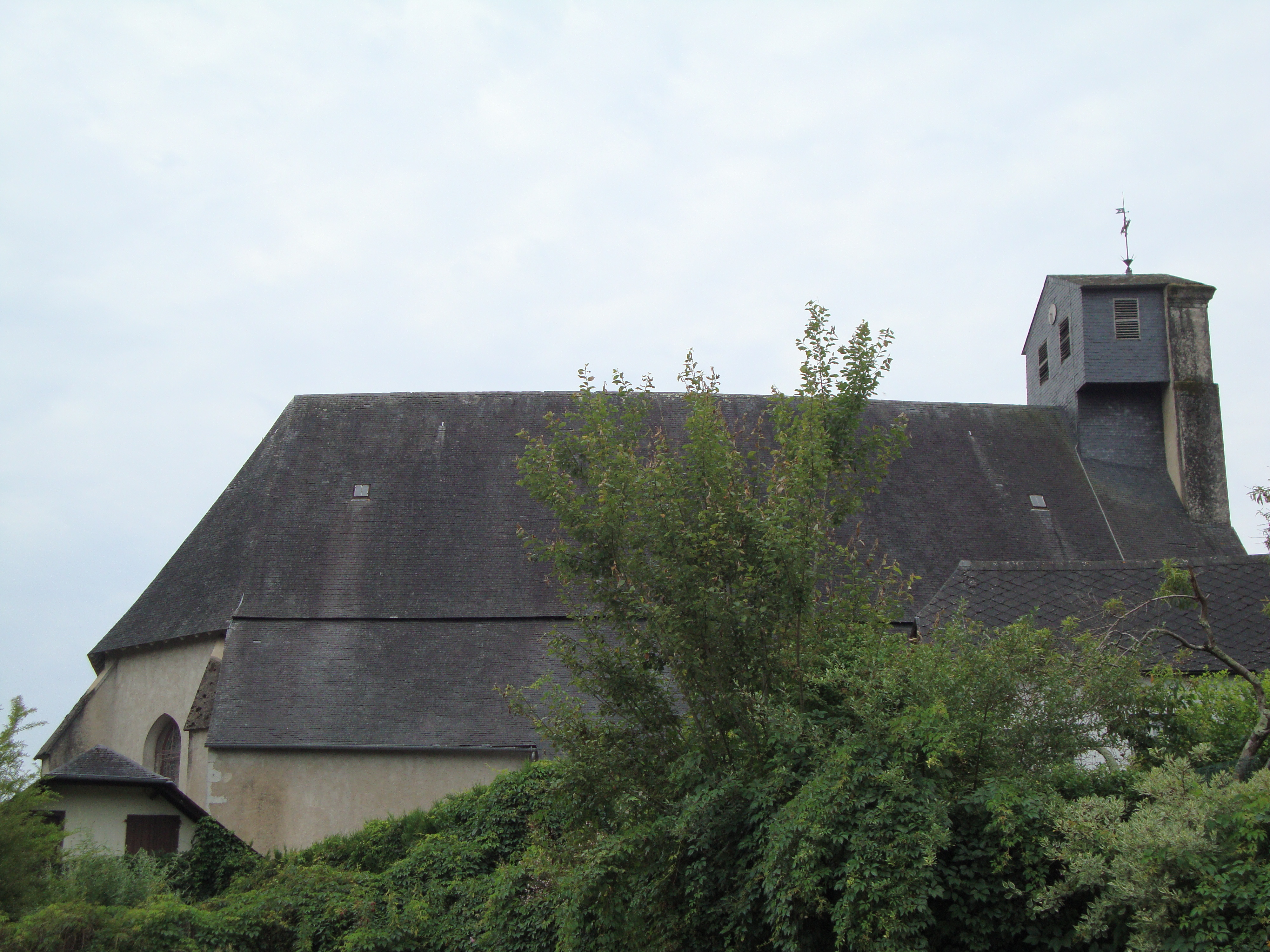 Lasseube (Pyr-Atyl) church, side view